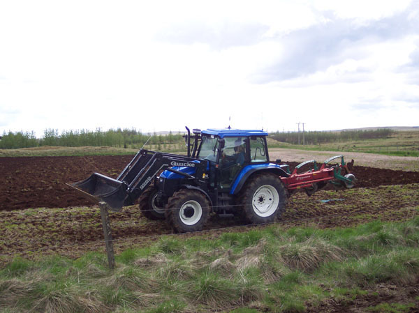 A New Holland TS 110 ('04 model) with a Quicke FEL and a Kverneland plough, ploughing in Iceland.